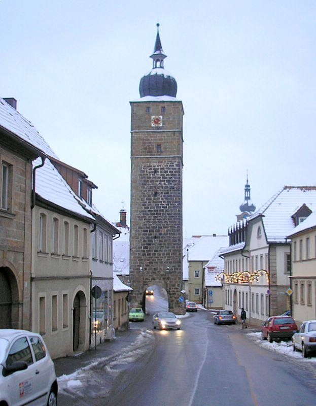 Ebern (Landkreis Haßberge, Lower Franconia, Germany). The suburb "Klein Nuernberg", looking north to the "Grauturm" gate